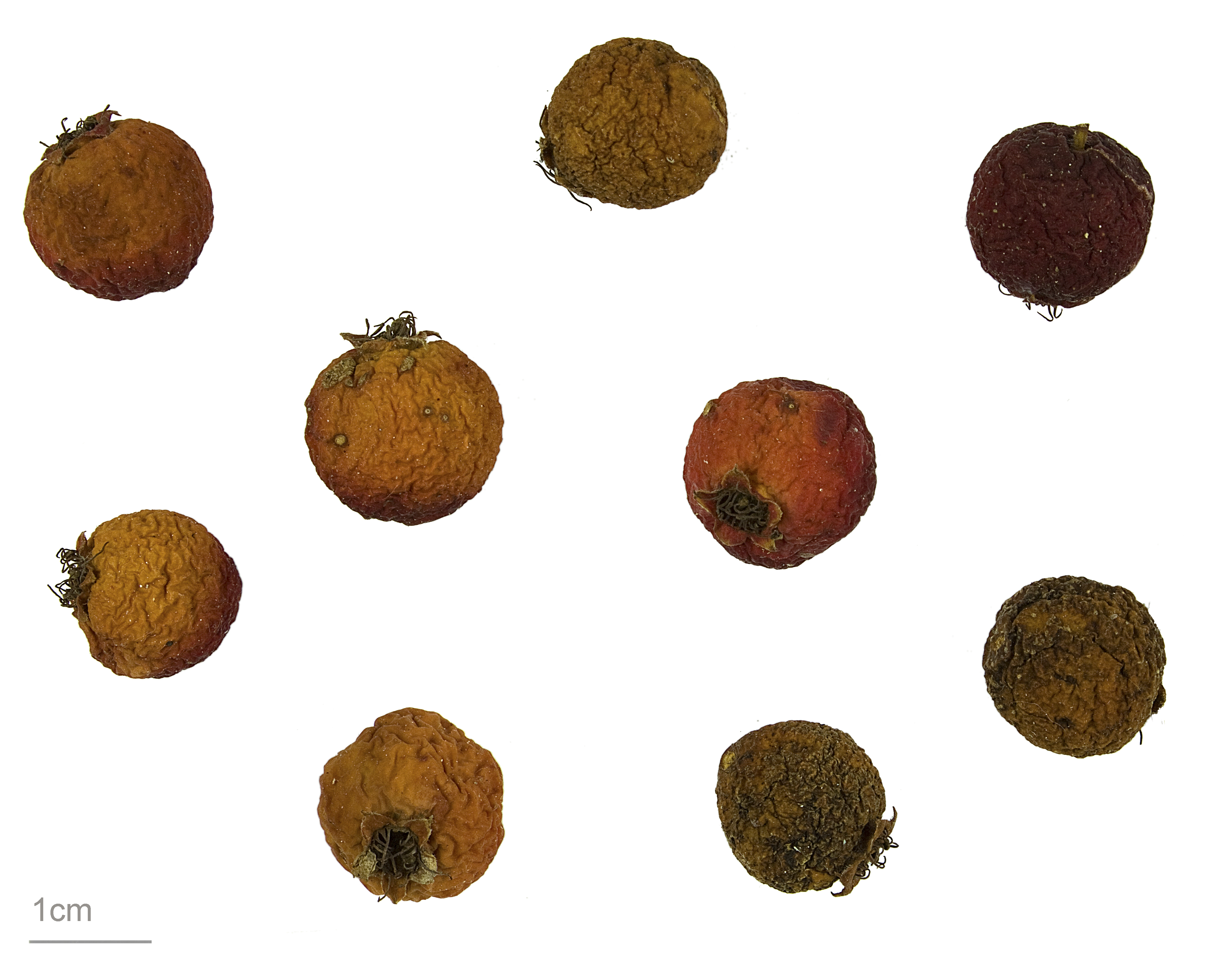 Azerole , fruits and seeds